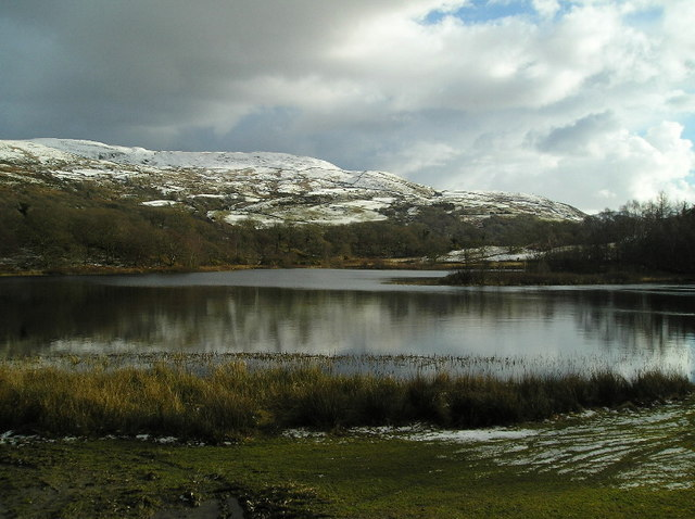 Llyn Tecwyn isaf March 06